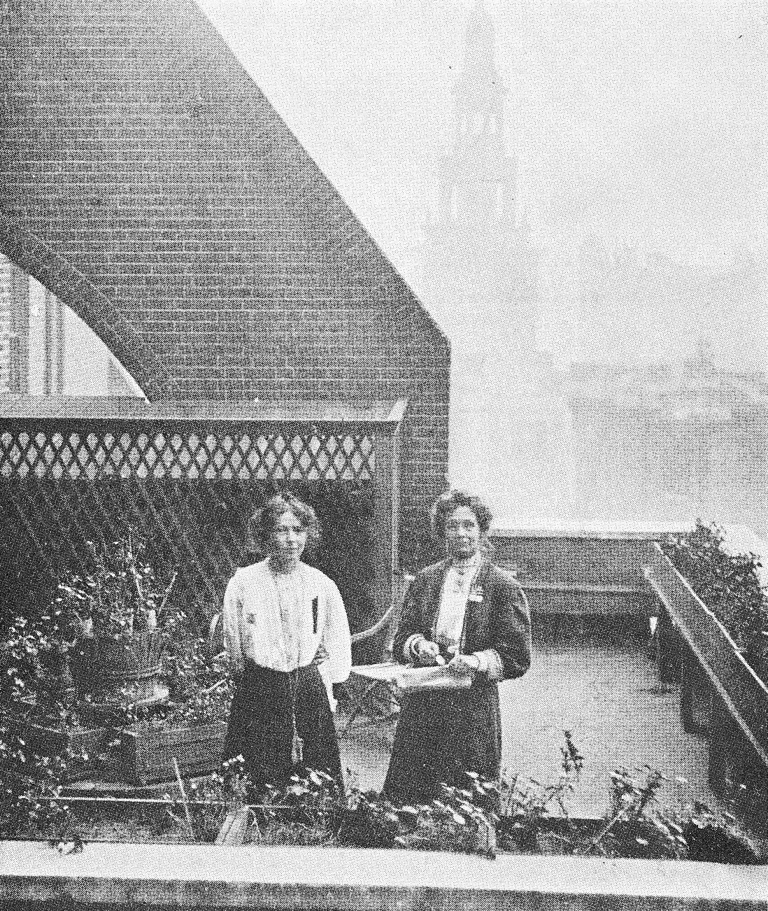 Emmeline Pankhurst and her daughter Christabel hiding from police in the roof garden of the Clements Inn